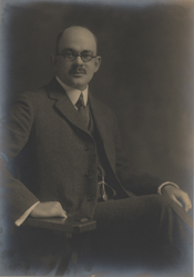 John Jacob Rogers, US Representative from Massachusetts